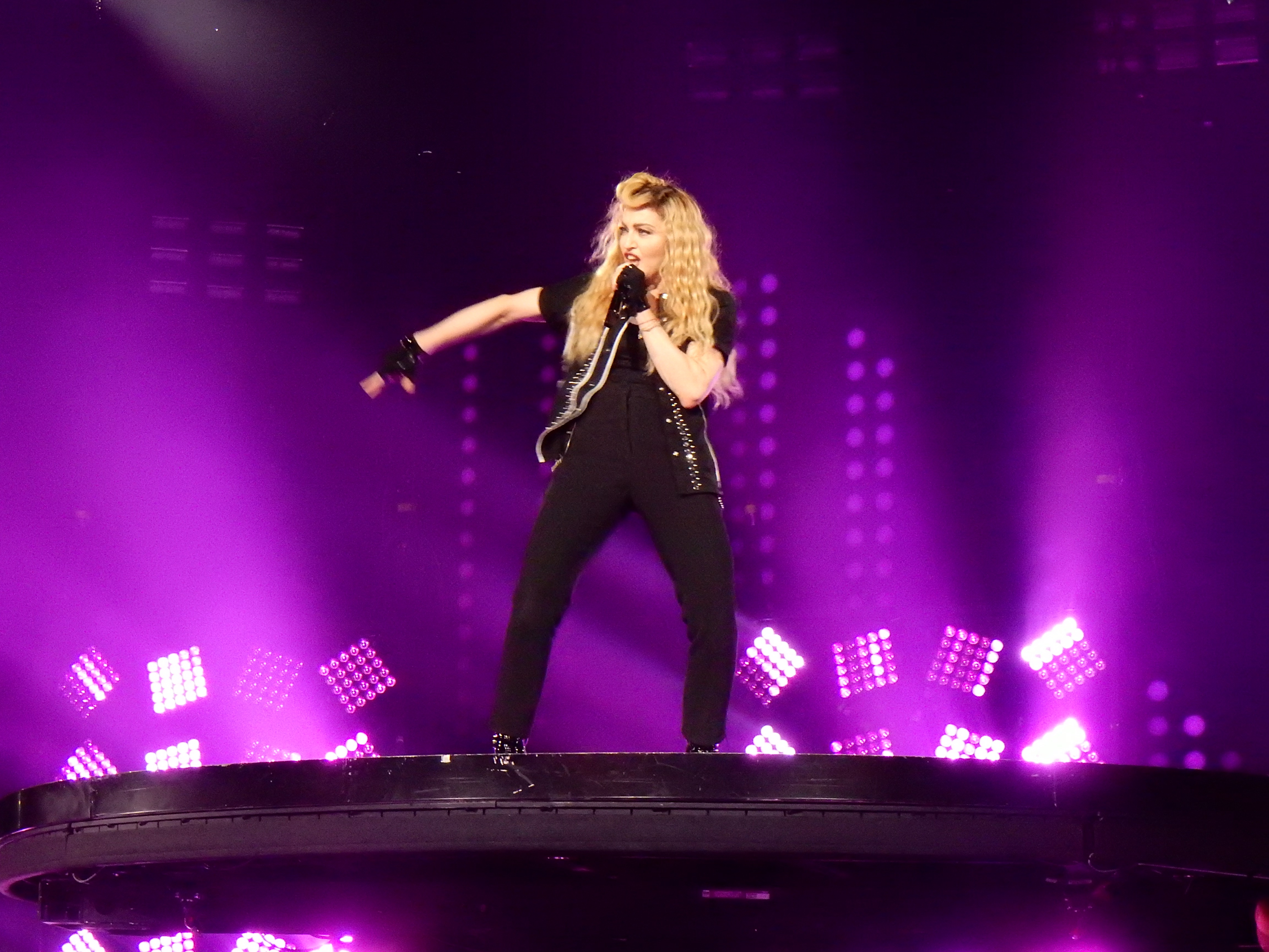 Madonna - Rebel Heart tour 2015 - Berlin 2